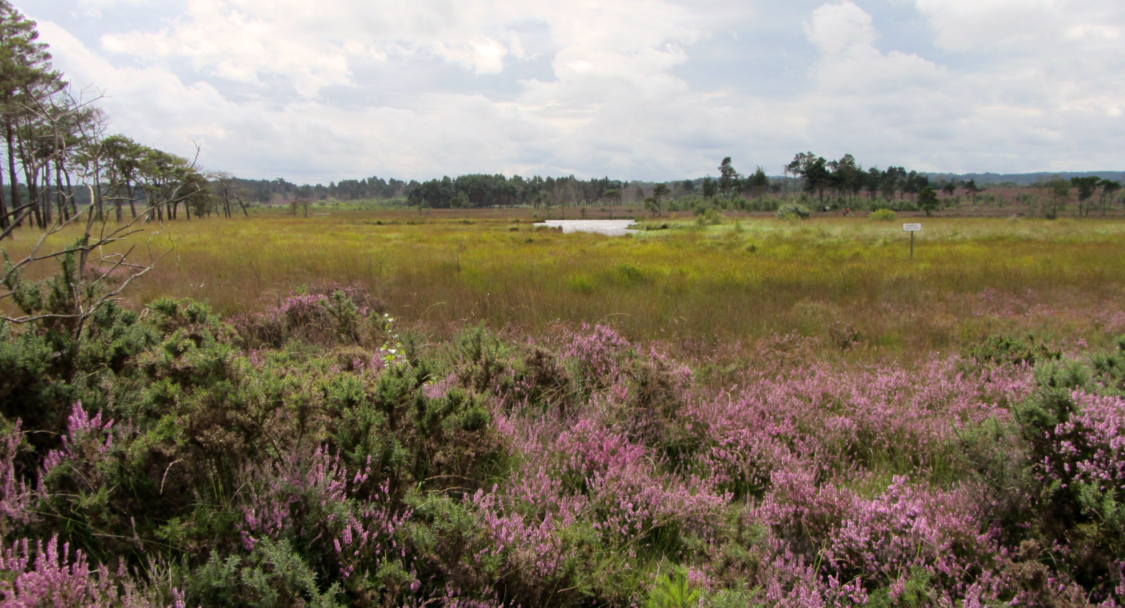 View of Thursley Common, Surrey, looking towards Pudmore Pond.